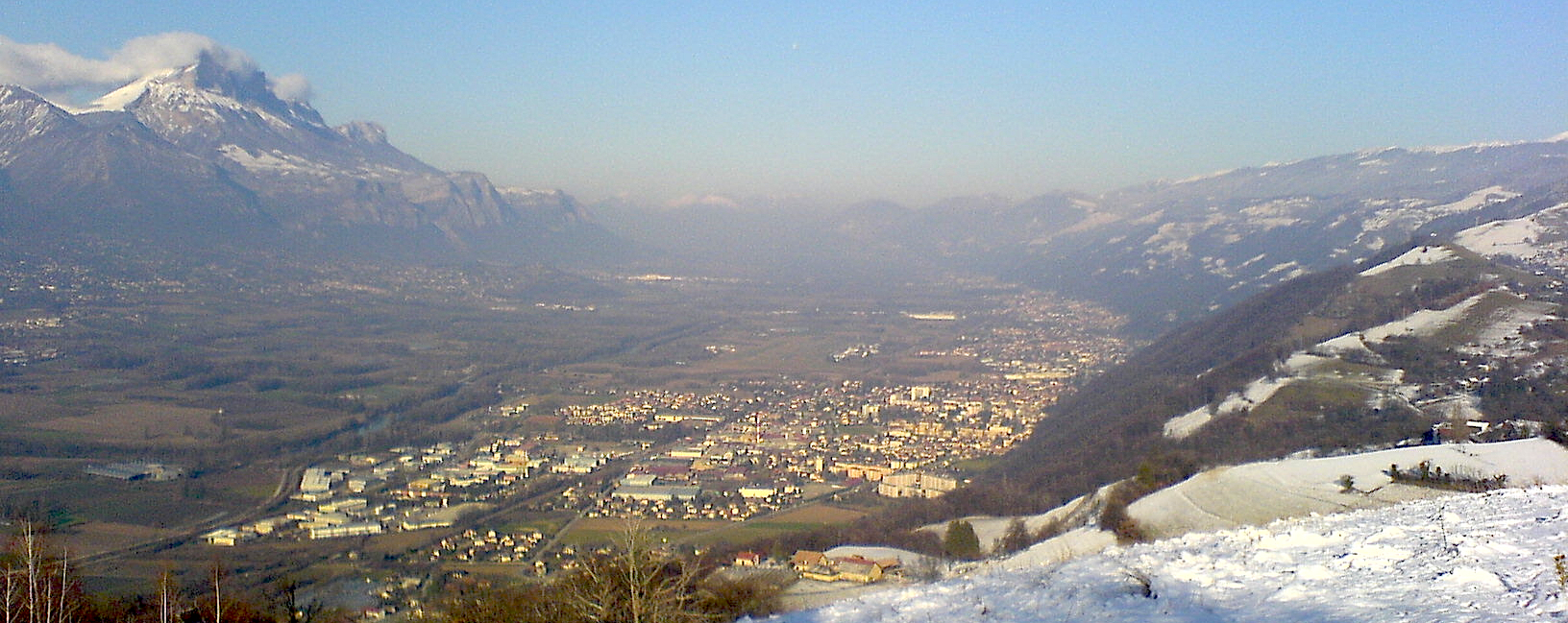 Domène and the Grésivaudan valley, Isère, France. Chartreuse mountains (left), Balconies of Belledonne and Mount Belledonne (right), Mount Bauges at the bottom (mist).